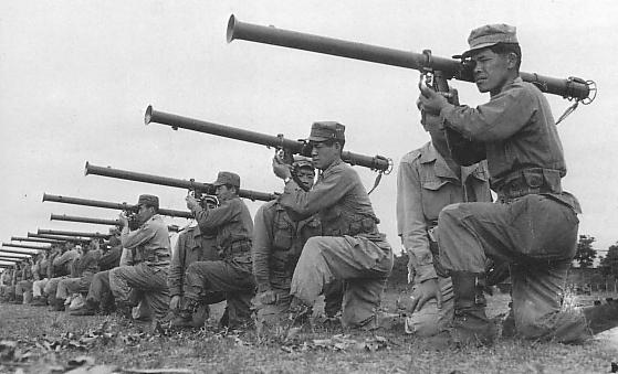 Military exercise of NPR(National Police Reserve of Japan)